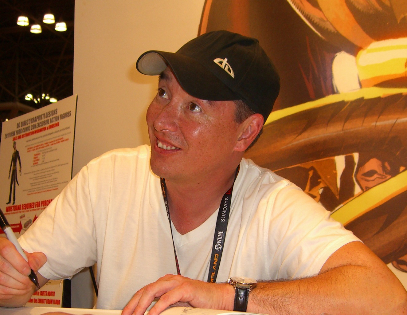 Comics creator Justin Norman - aka Moritat at the 2011 New York Comic Con, Friday, October 14, 2011. This photo was created by Luigi Novi. It is not in the public domain, and use of this file outside of the licensing terms is a copyright violation.